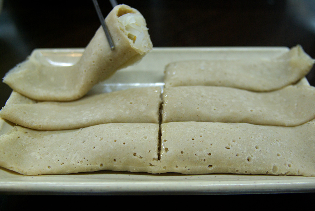 Bingtteok made with a sheet of buckwheat pancake and stuffed with nuchae namul (shredded daikon), which is a local specialty of Jeju Island, South Korea.